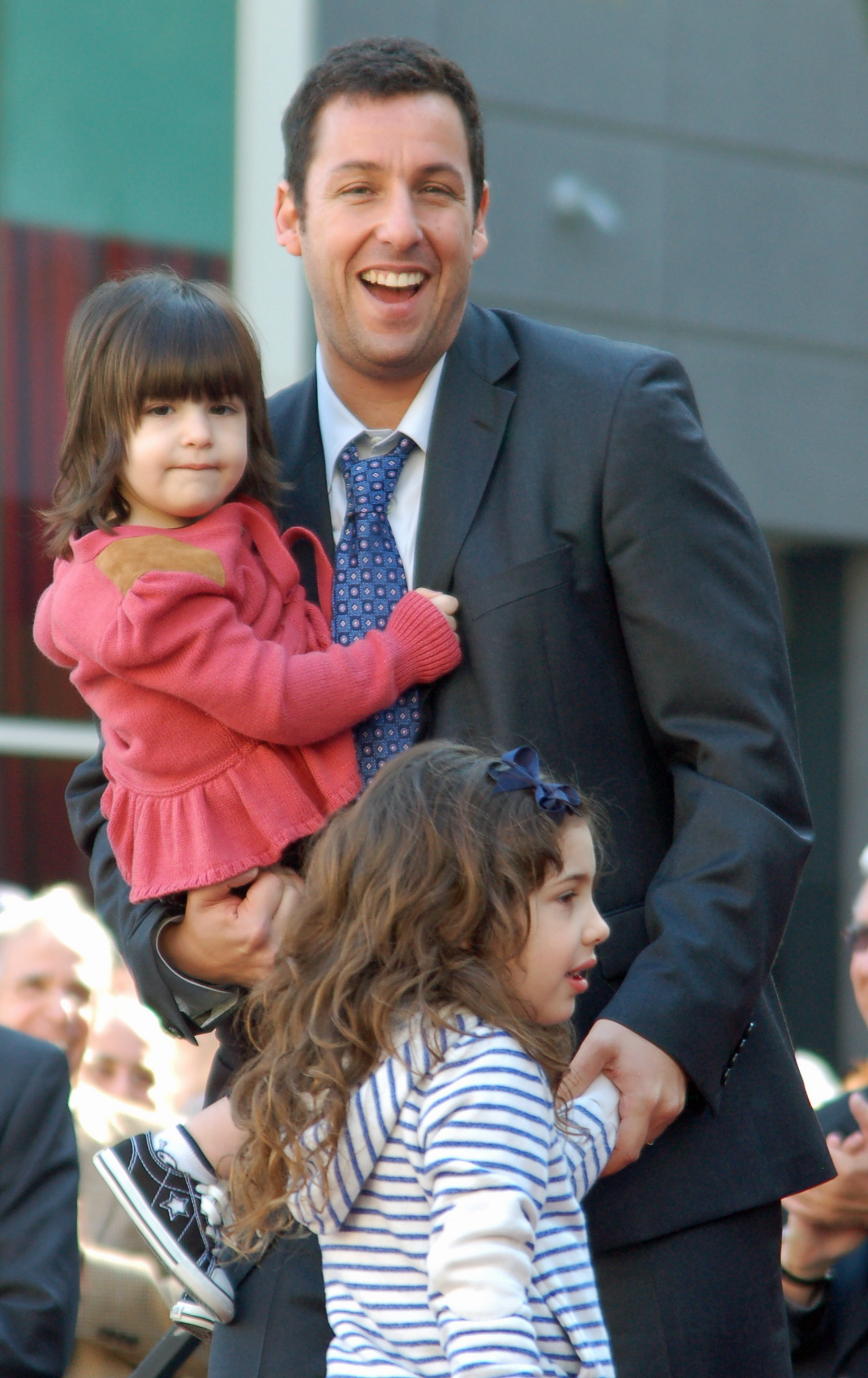 Adam Sandler with his two daughters, Sunny and Sadie, at a ceremony to receive a star on the Hollywood Walk of Fame.